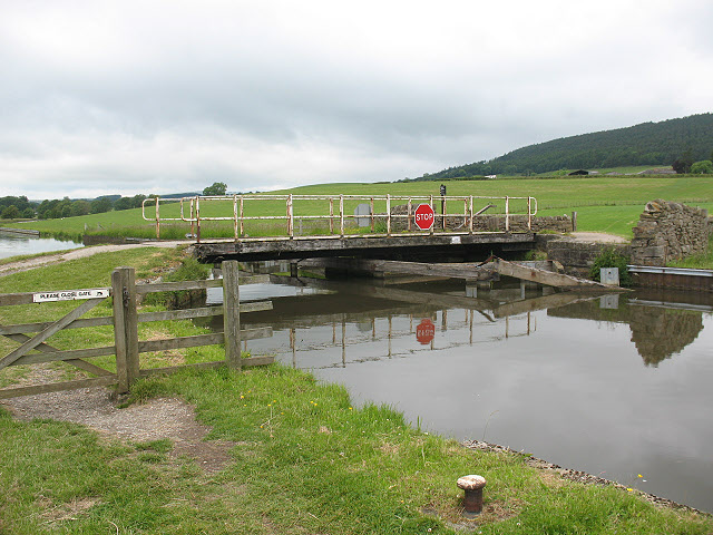 Highgate Bridge near Gargrave. One of many swing bridges on the Leeds and Liverpool canal, giving access to farmland or buildings. This is the one also seen in 122209.